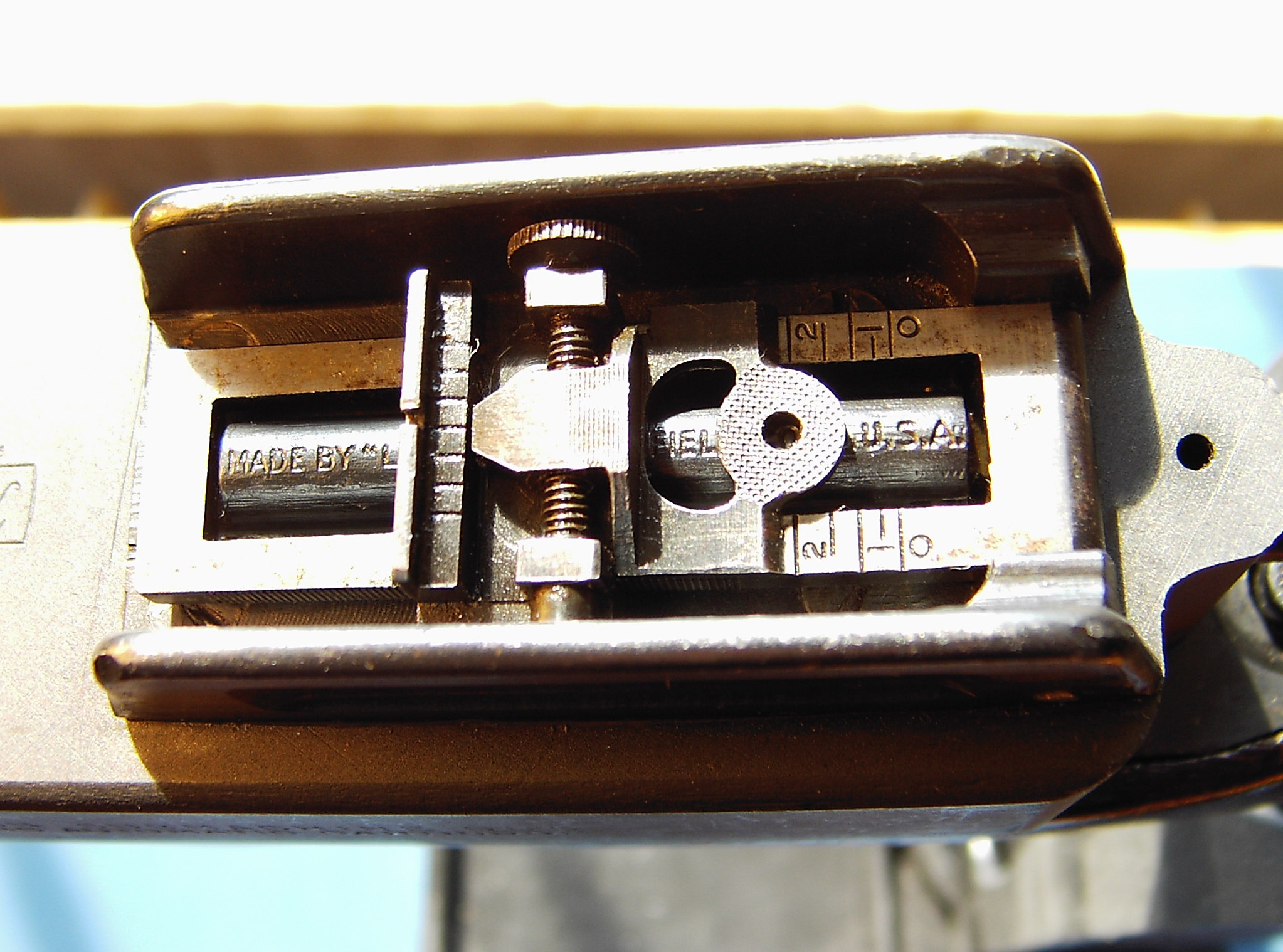 Adjustable Lyman sight of a Thompson 1928 A1 Submachine Gun